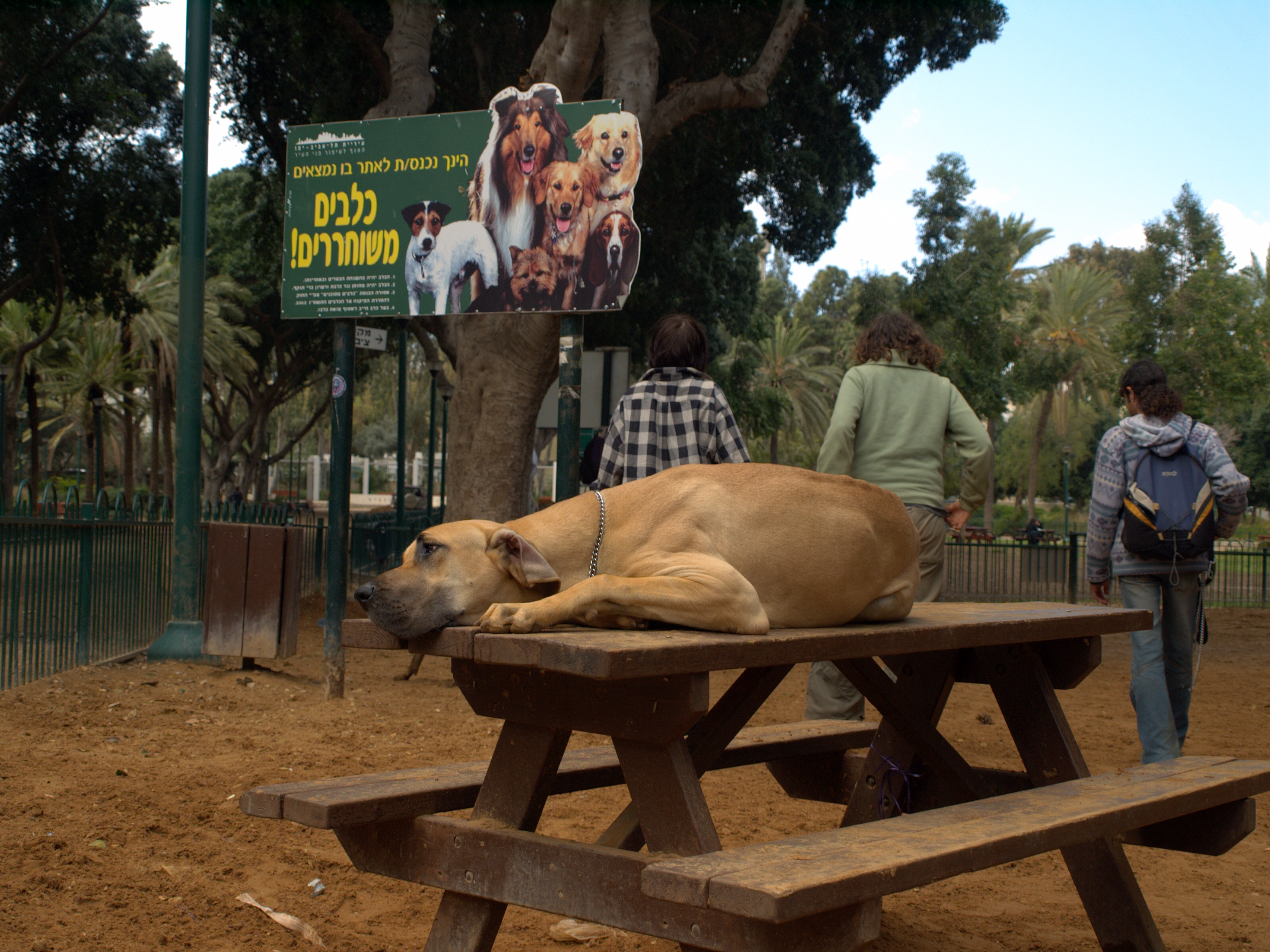 A dog park in Gan Meir park in Tel Aviv, Israel.